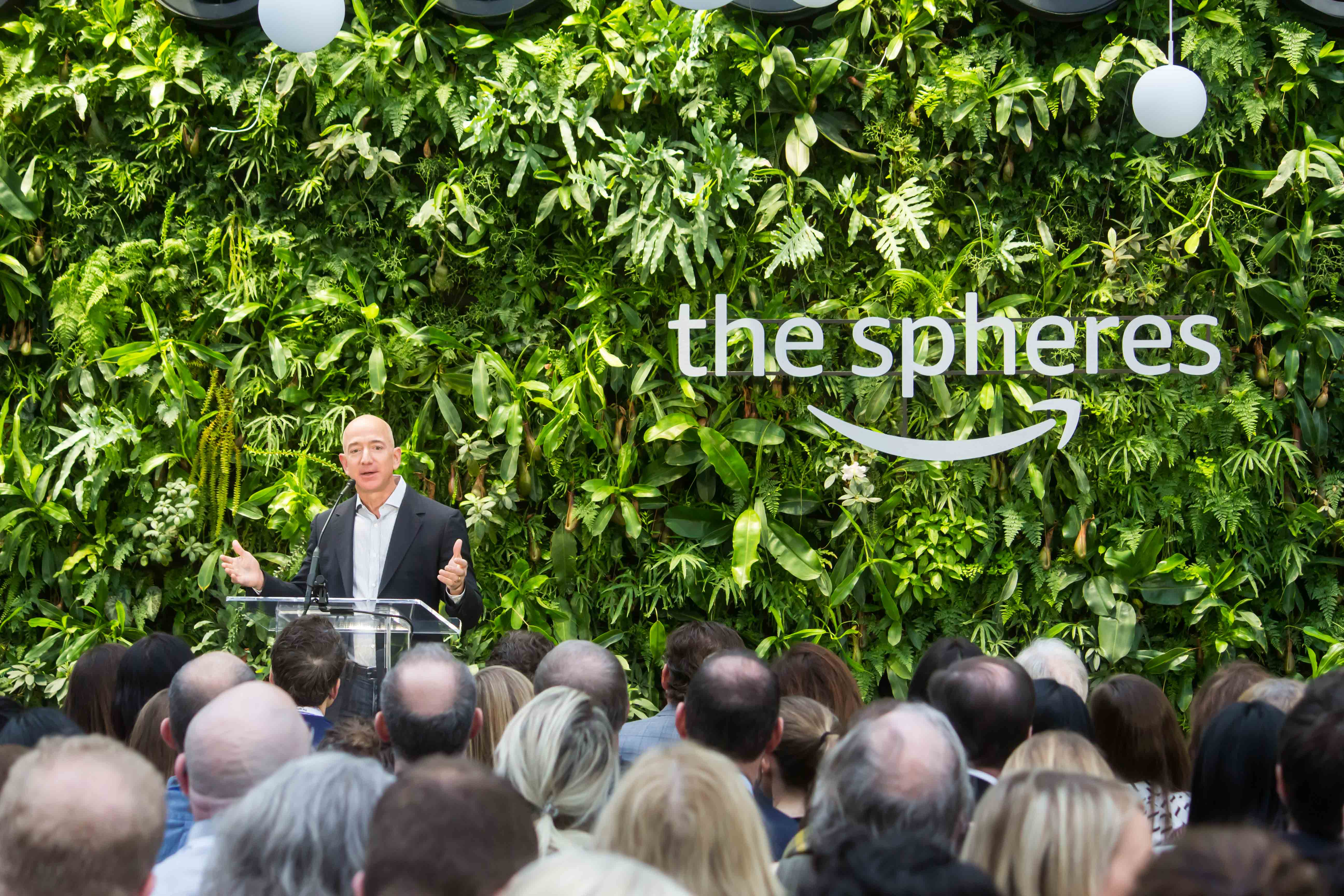 Jeff Bezos at Amazon Spheres Grand Opening in Seattle